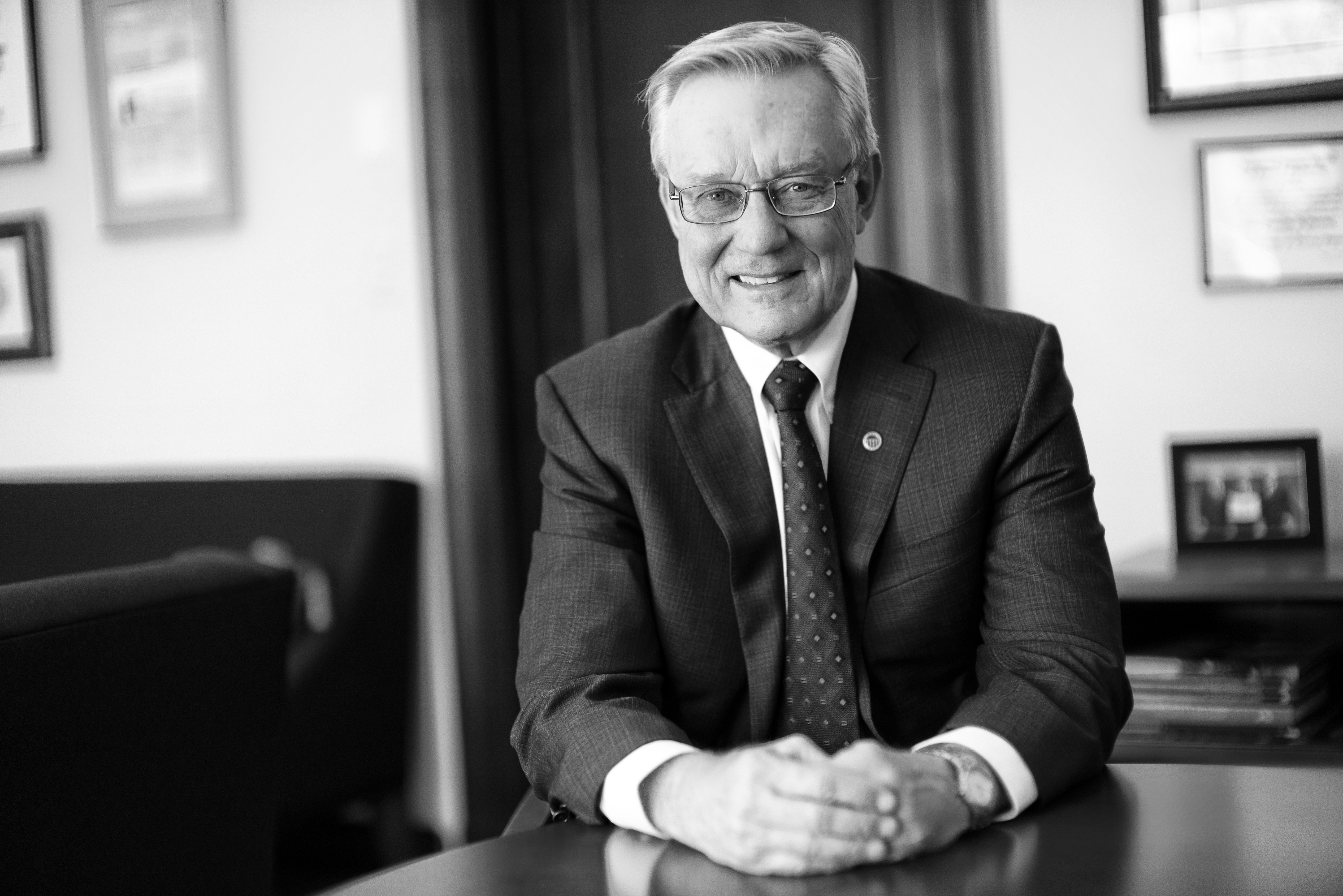 Dr John L. Anderson in 2020 at the National Academies in Washington DC by Christopher Michel.